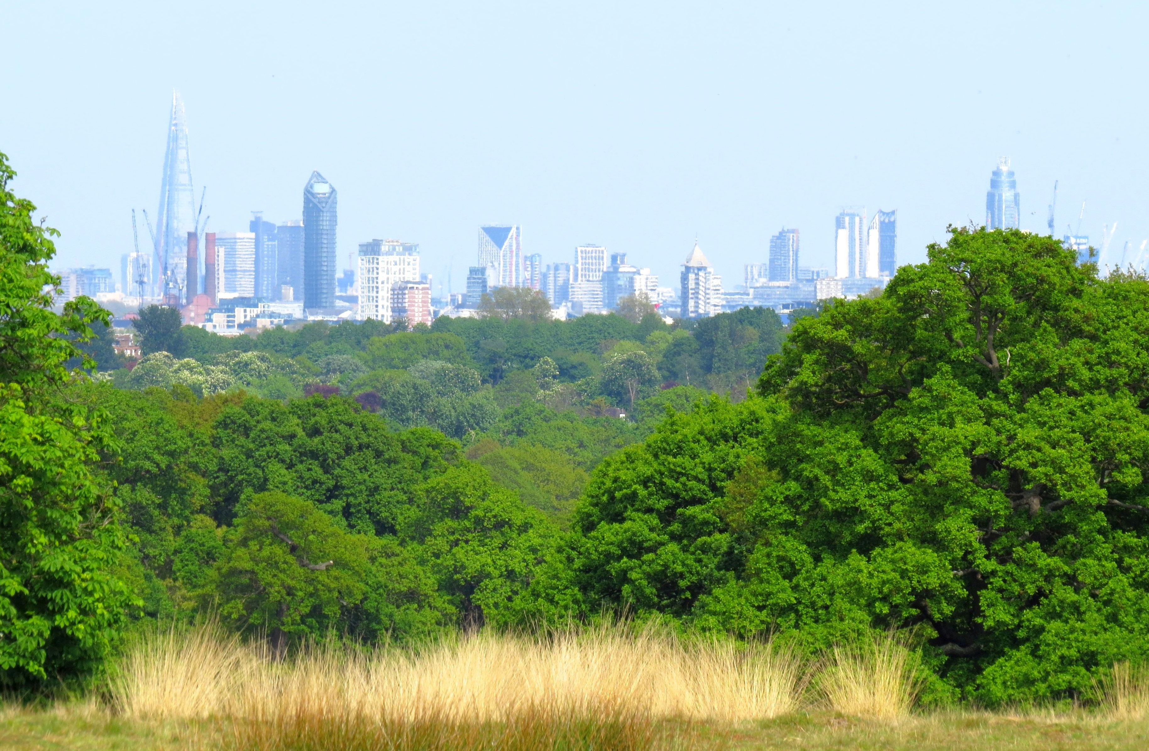 View from the Richmond Park in London